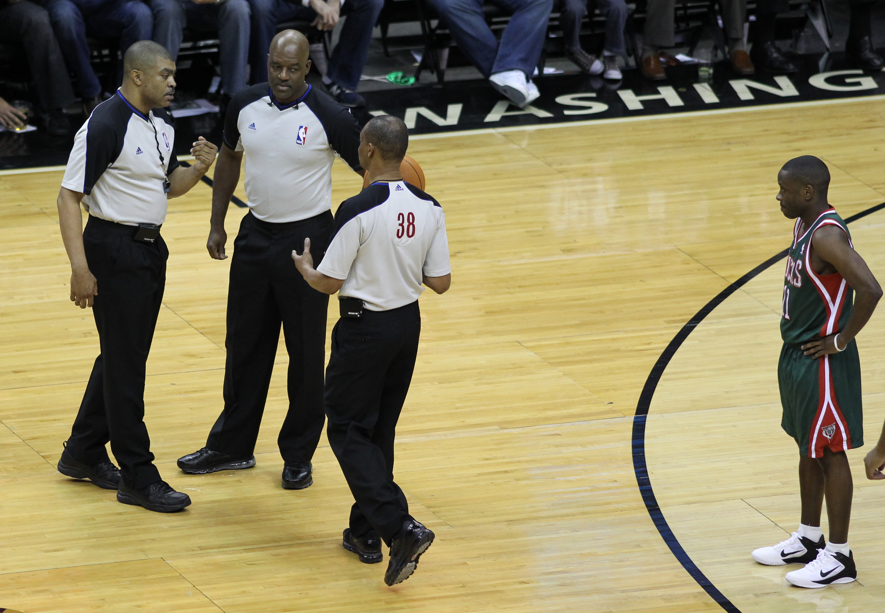 From left to right, Tony Brothers, Haywoode Workman, Michael Smith, Earl Boykins